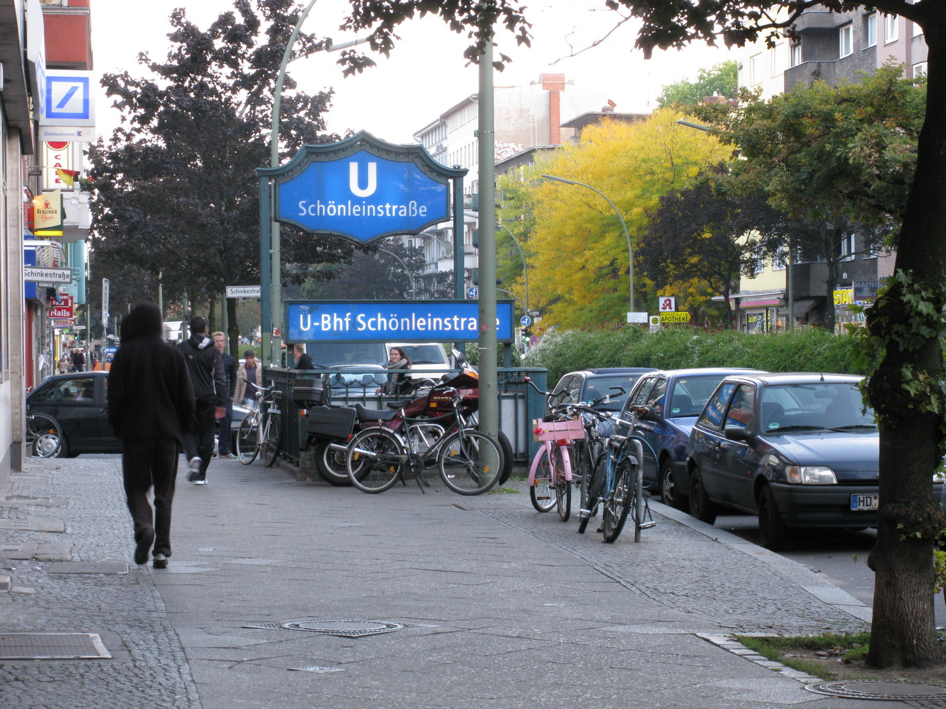 Entrance to Schönleinstraße underground station on Kottbusser Damm, Berlin, Germany